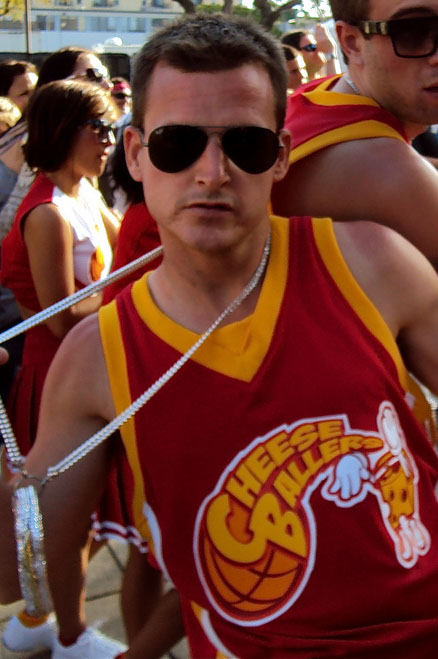 This is a photo of skateboarder Rob Dyrdek.